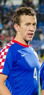 Ivan Perišić